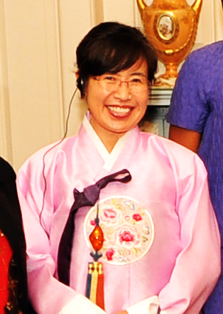 2010 International Women of Courage Awards